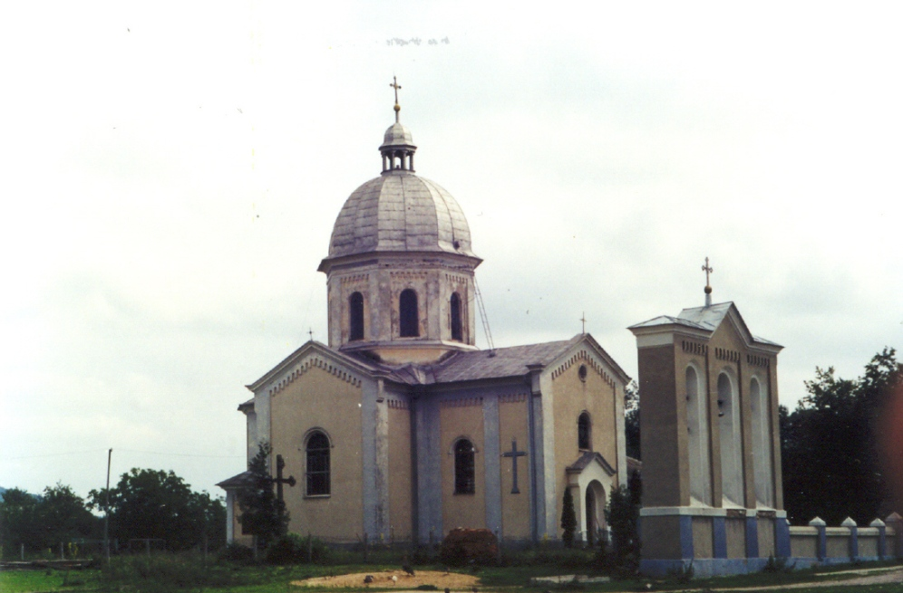 St. Nicholas Church in the village of Buzhok, Zolochiv Raion, Lviv Oblast, Ukraine.